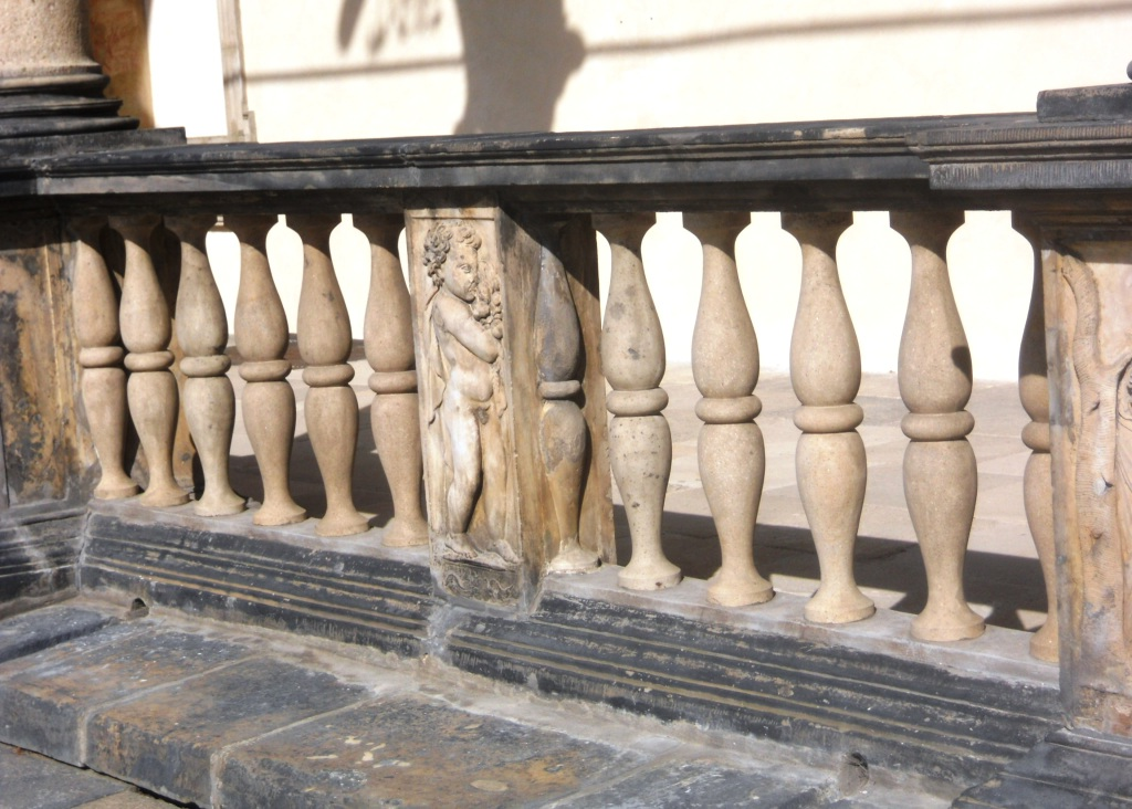 Renaissance balustrade, around 1560 (Prague, Queen Anne pavillon)